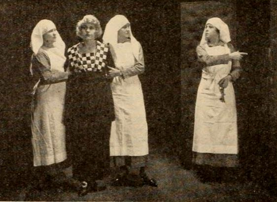 Still from the American film serial The Black Secret (1919) with Pearl White and three unidentified actresses, on page 104 of the December 6, 1919 Exhibitors Herald.